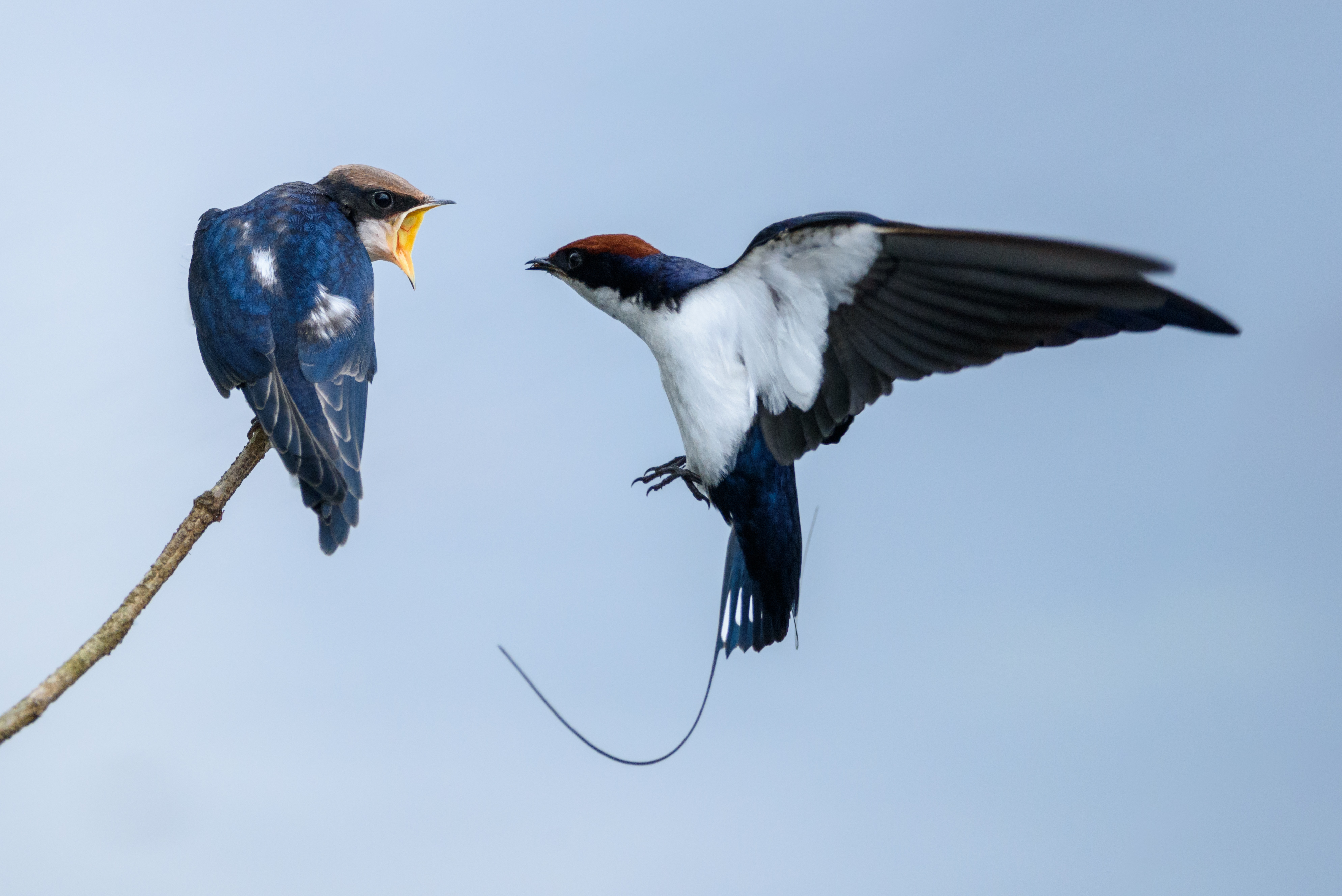 The wire-tailed swallow is a small passerine bird in the swallow family. It has two subspecies: H. s. smithii, which occurs throughout Africa, and H. s. filifera, which is found in southern and southeastern Asia.